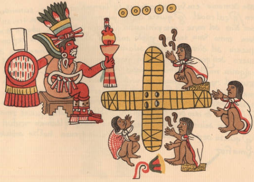 This picture depicts a game of patolli overseen by the god Macuilxochitl from page 048 of the Codex Magliabecchiano